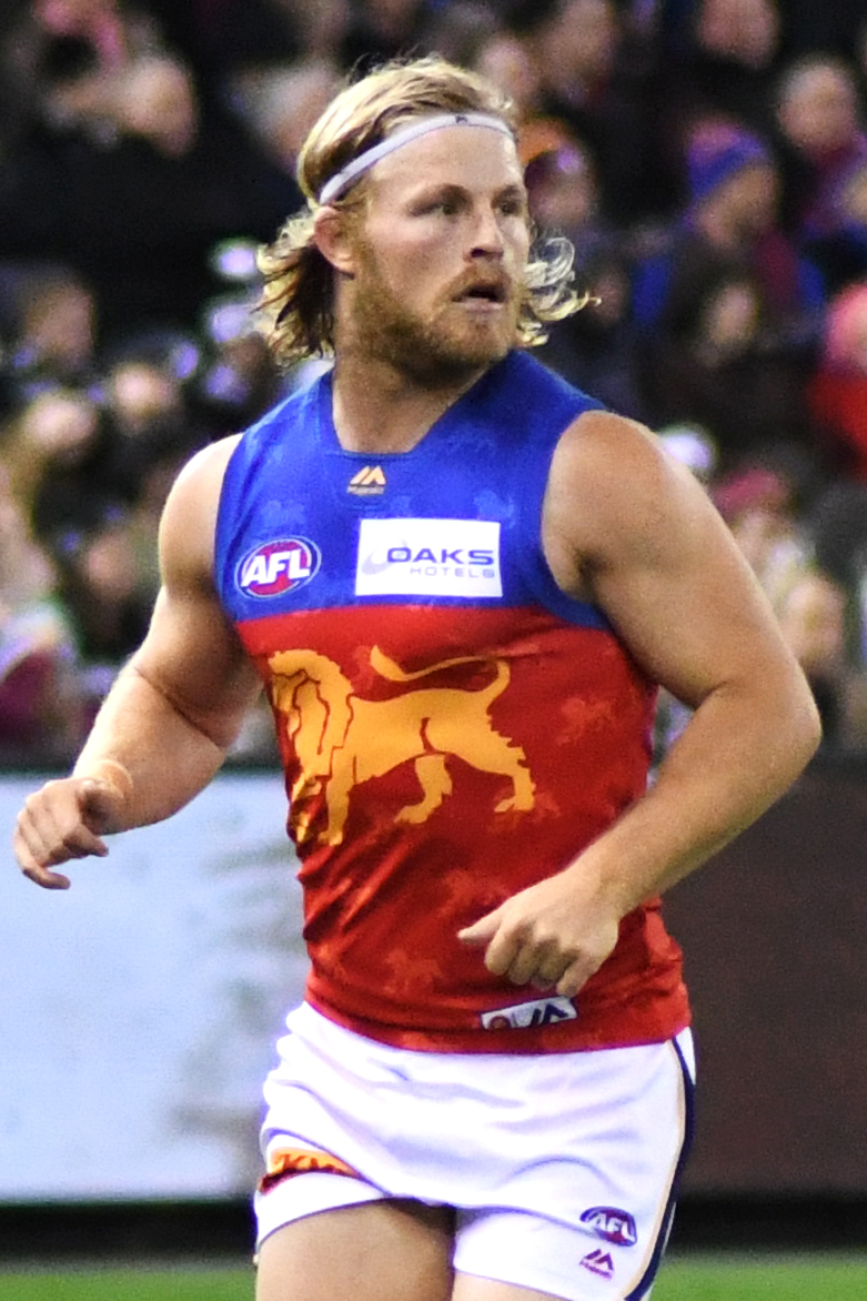 Daniel Rich of Brisbane during the 2018 AFL round 21 match between Collingwood and Brisbane at Etihad Stadium on Saturday, 11 August 2018 in Melbourne, Victoria.